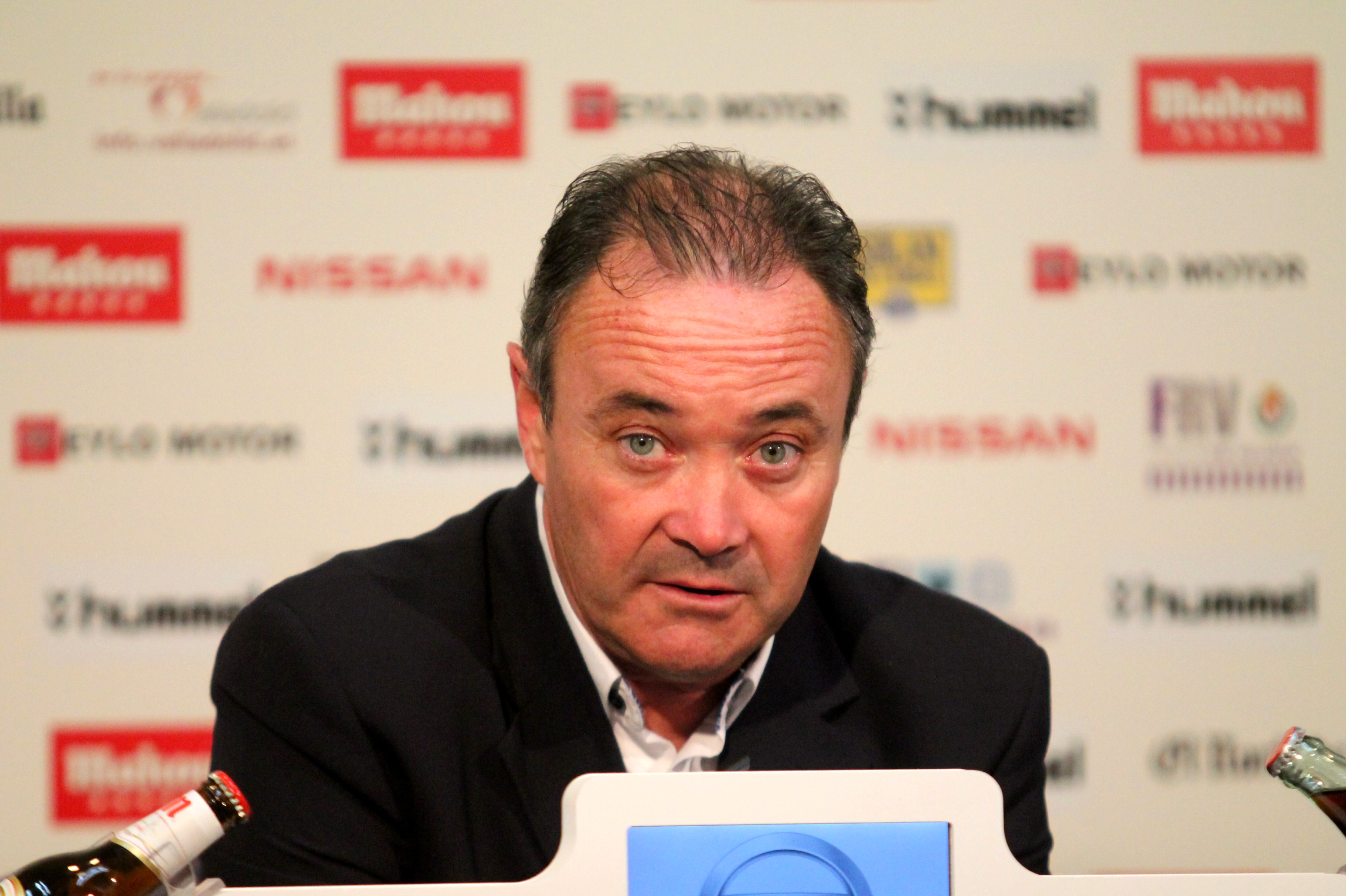 Juan Ignacio Martínez, Spanish football coach.